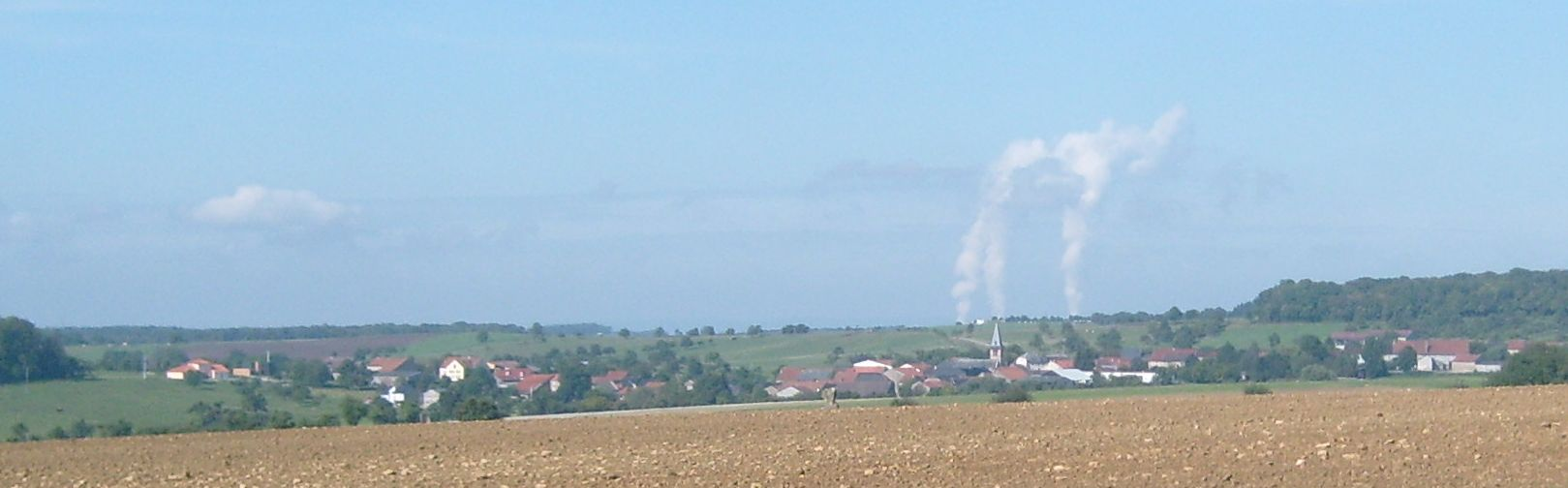 Launstroff, a village in the region Lorraine, France. Close to the german border.